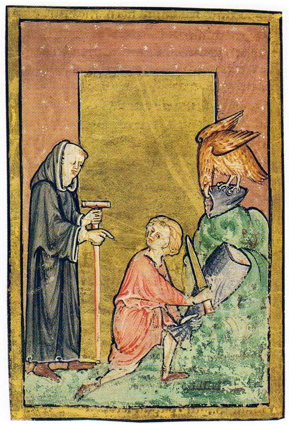 A miniature in the British Library Yates Thomson MS 26, Bede's Prose Life of St Cuthbert, depicting the miracle where an eagle delivers a fish to Cuthbert on the river Teviot